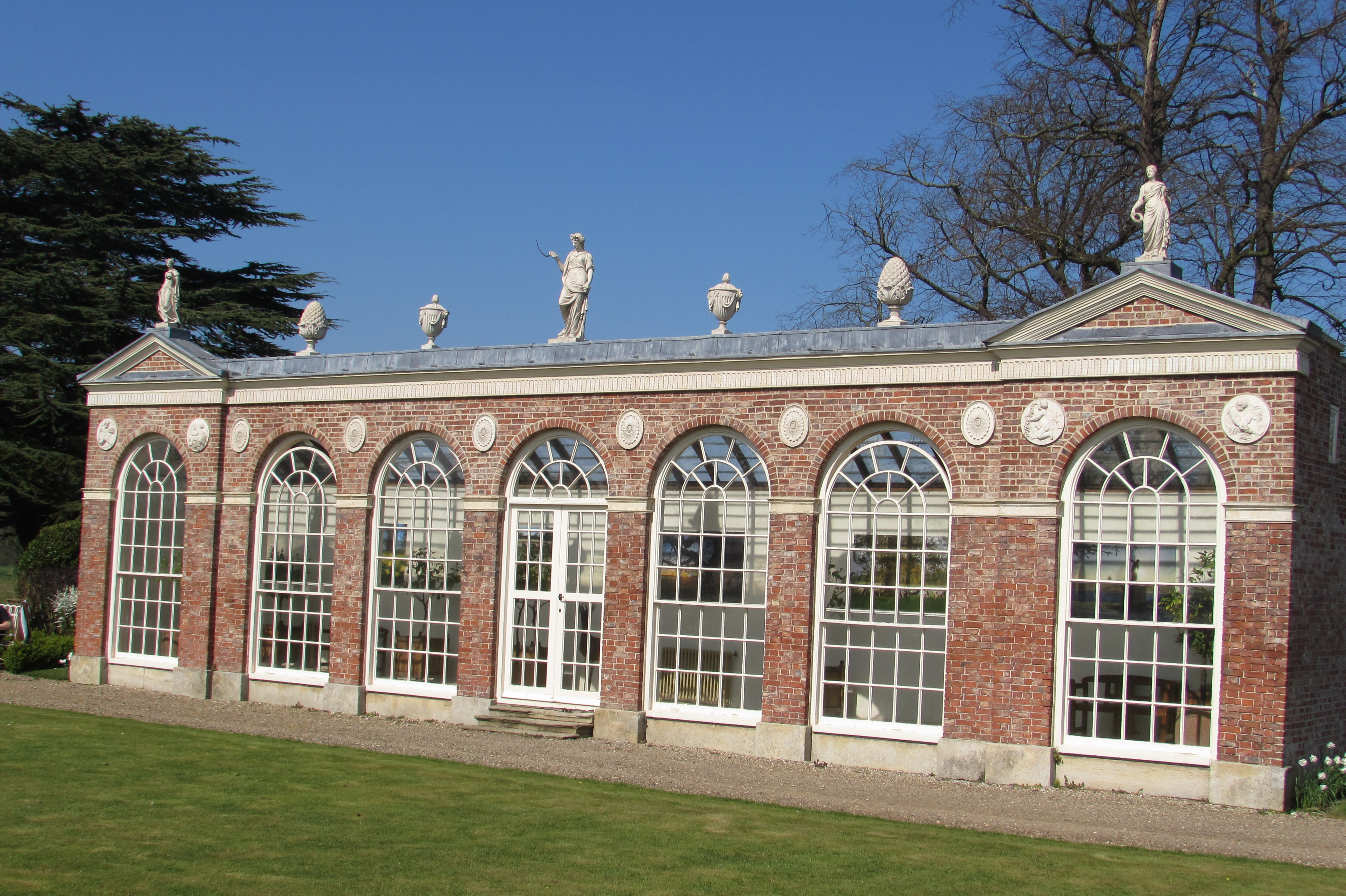 Burton Constable Hall - Orangery, Burton Constable, East Riding of Yorkshire, England.